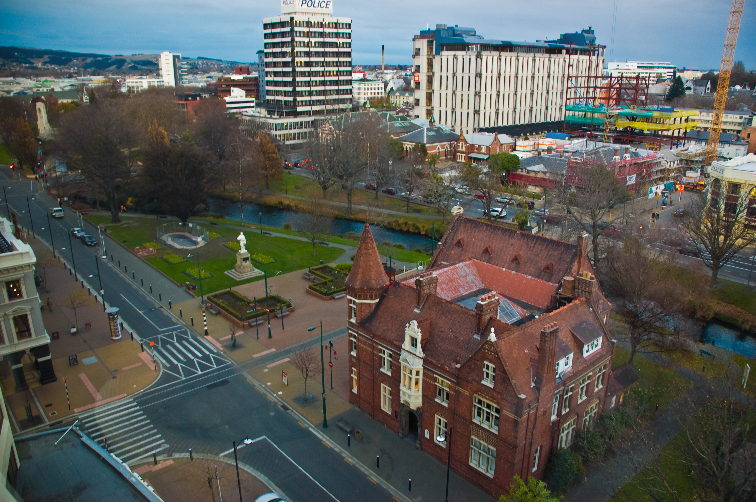 Oxford Terrace, Christchurch, New Zealand, 13 June 2008. This image shows past and future homes of the Christchurch City Council. The Queen Anne Building in the foreground was the Christchurch City Council's original Municipal Chambers, but is now the Our City O-Tautahi exhibition space. It is listed with the New Zealand Historic Places Trust, Register number 1844.The Council are currently redeveloping the former NZ Post building (the large white building in the background) as the new Civic Office Building, due for completion in mid-2010.